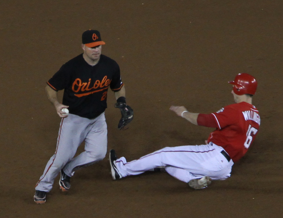 Josh Willingham of the Washington Nationals slides into second base, defended by Ty Wigginton of the Baltimore Orioles, during a 2010 game at Nationals Park in Washington, D.C.